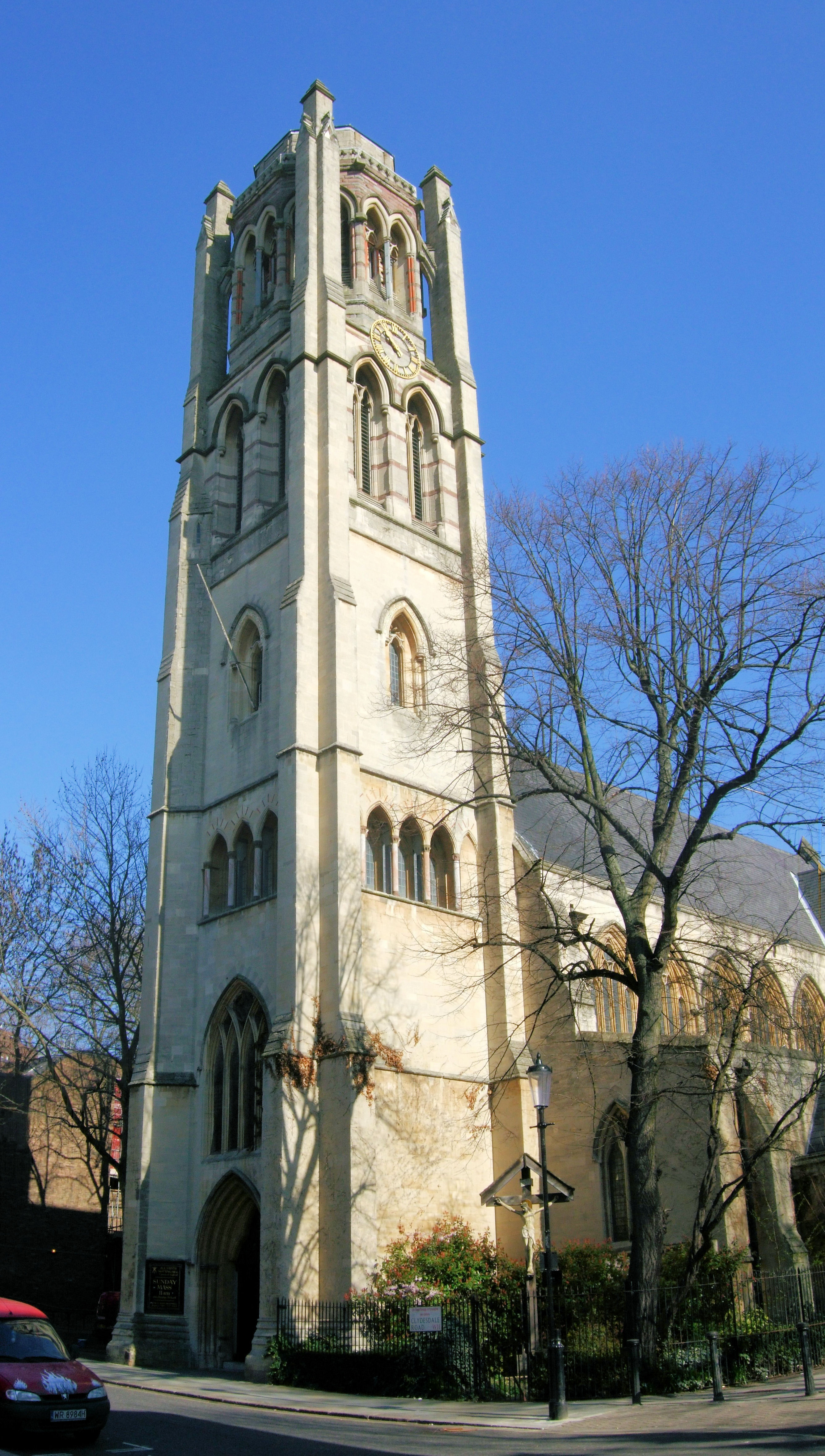 Church of England parish church of All Saints, Talbot Road, Notting Hill, London: bell tower. The church is a Gothic Revival building, of stone with polychrome decoration. The tower has five stages and the stump of a spire. The church is a Grade II* listed building.